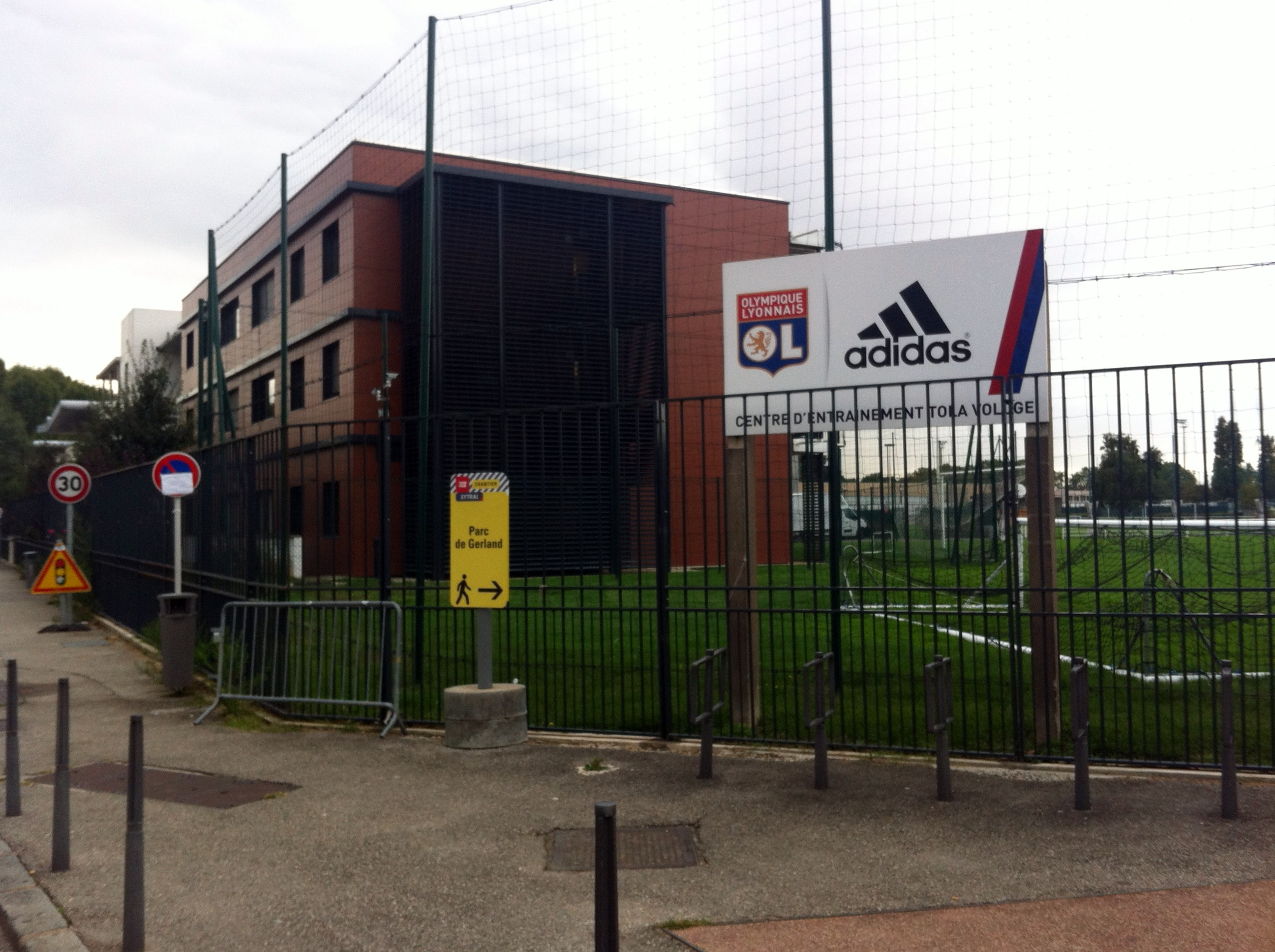 Panneau centre d'entraînement Tola-Vologe.